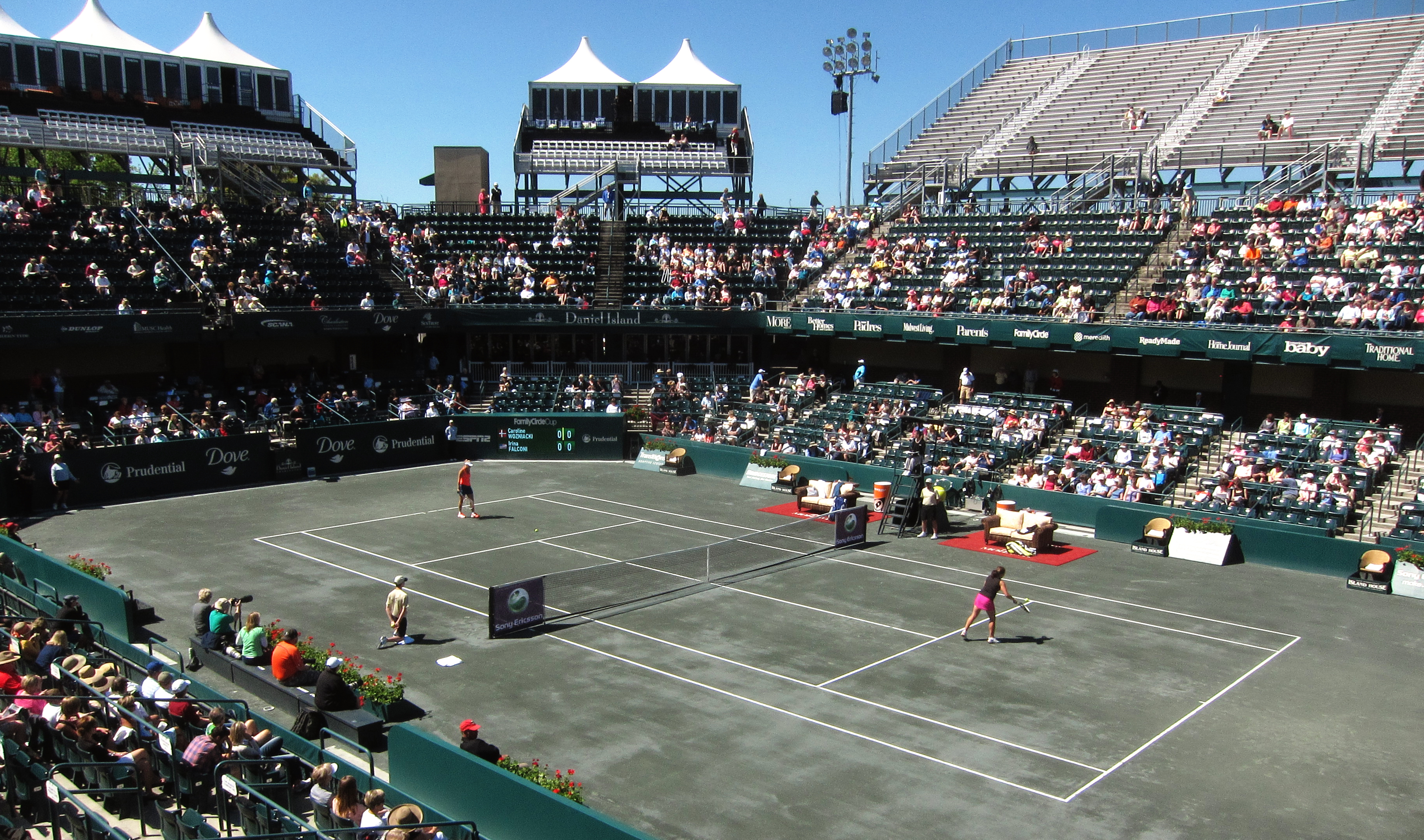 At the 2011 Family Circle Cup as Wozniacki (far end) and Falconi warm up.